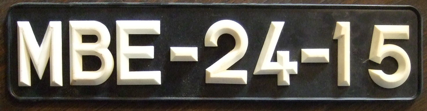 Heavy plastic plate with rivited plastic numbers.